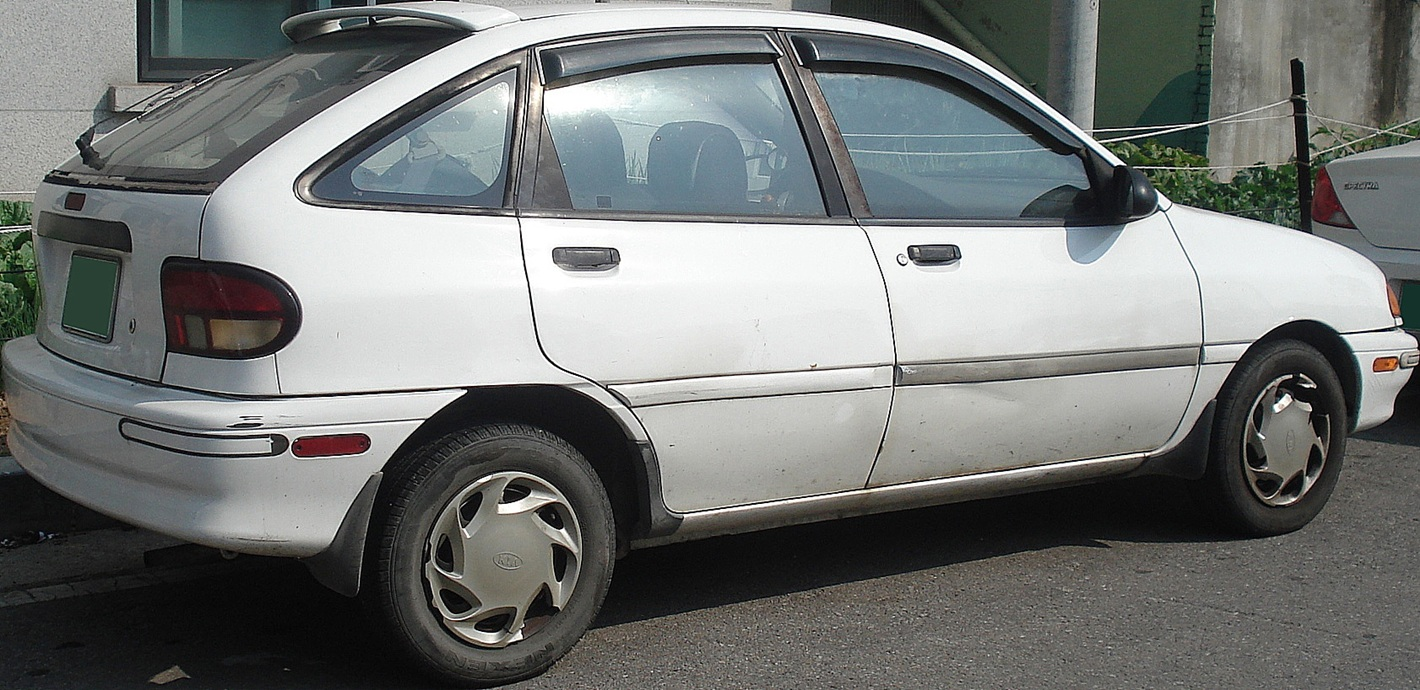 Kia Avella